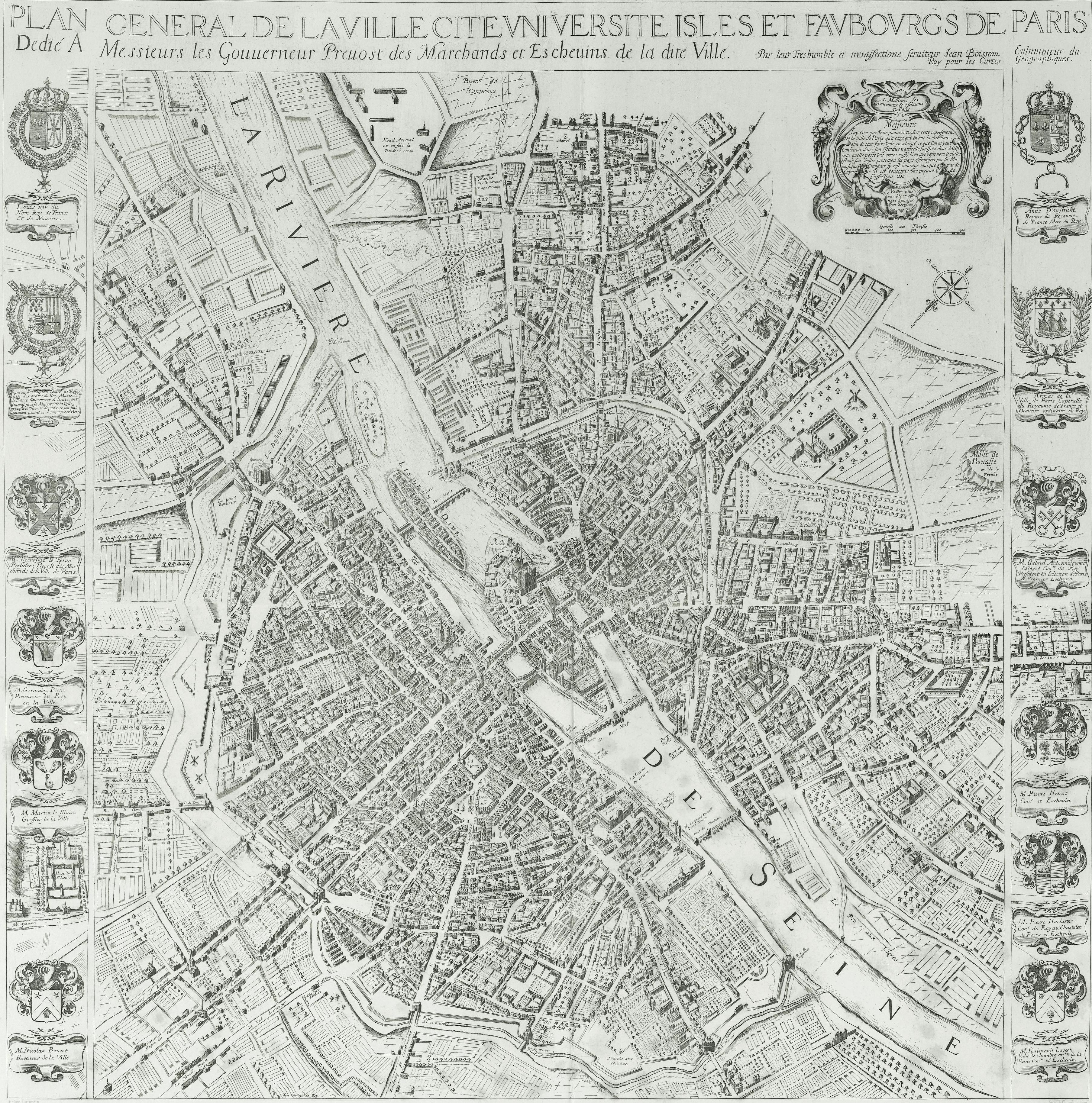 Map of Paris in 1648 (Plan general de la ville cite universite isles et faubourgs de Paris). This image is a composite of the original which consisted of 4 sections. The top two maps are 54.5 x 41 cm, and the bottom two, 44 x 41 cm; the assembled plan including the coats of arms on the left and right sides is 99 x 98 cm. The scale is approximately 1/9,000 (500 toises = 10.8 cm).